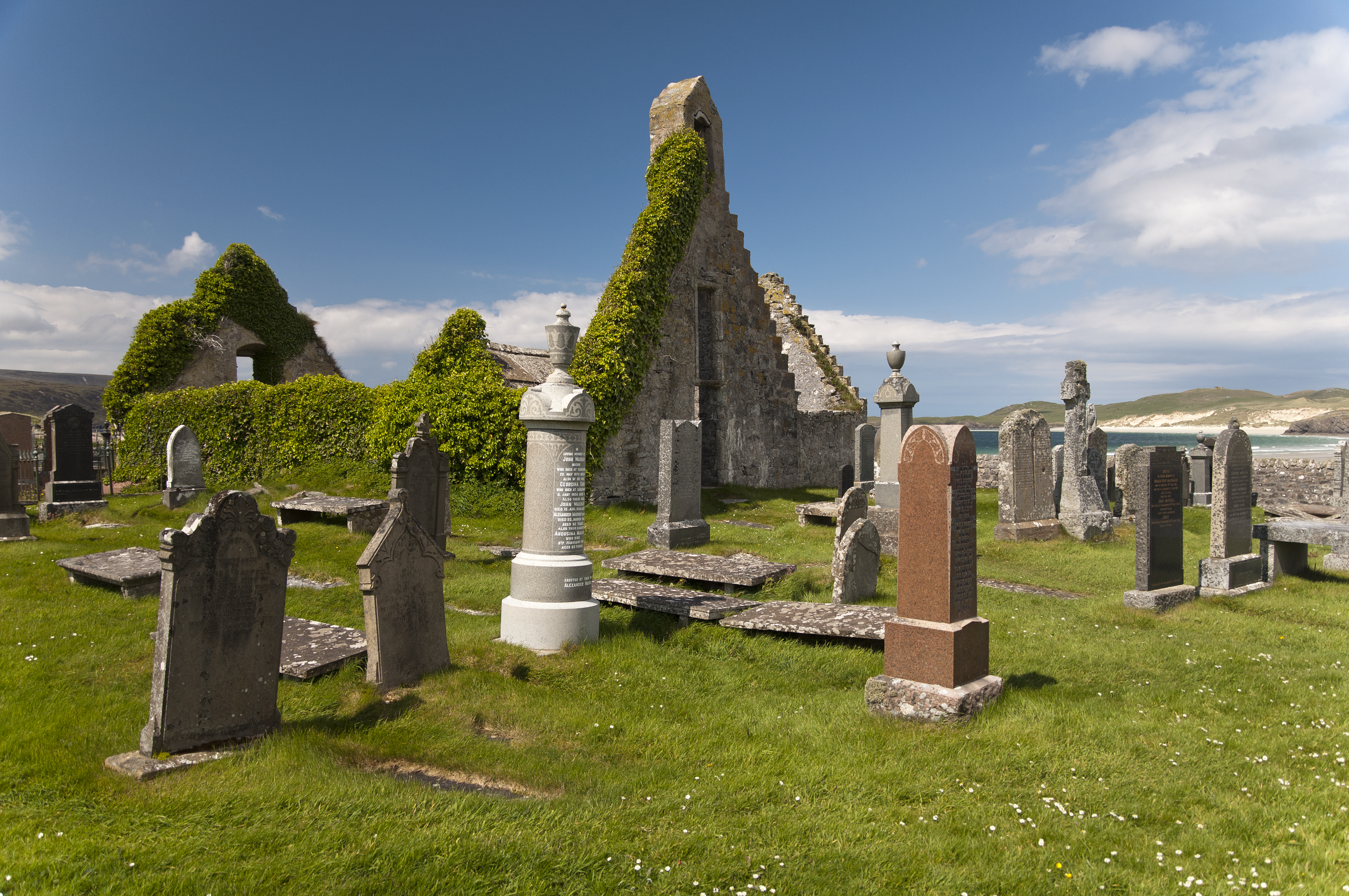 Balnakeil Church, Balnakeil, Scotland